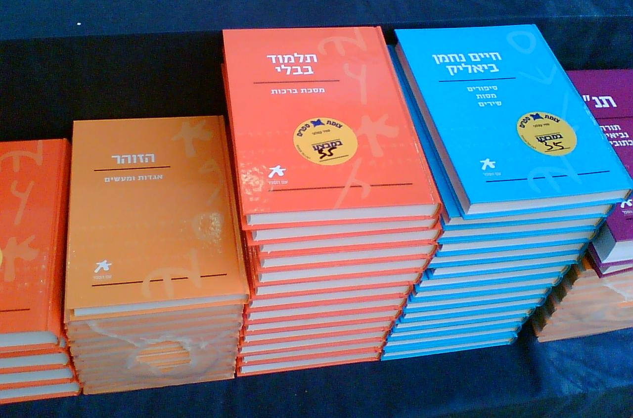 Books of the "Am Hasefer" series on sale